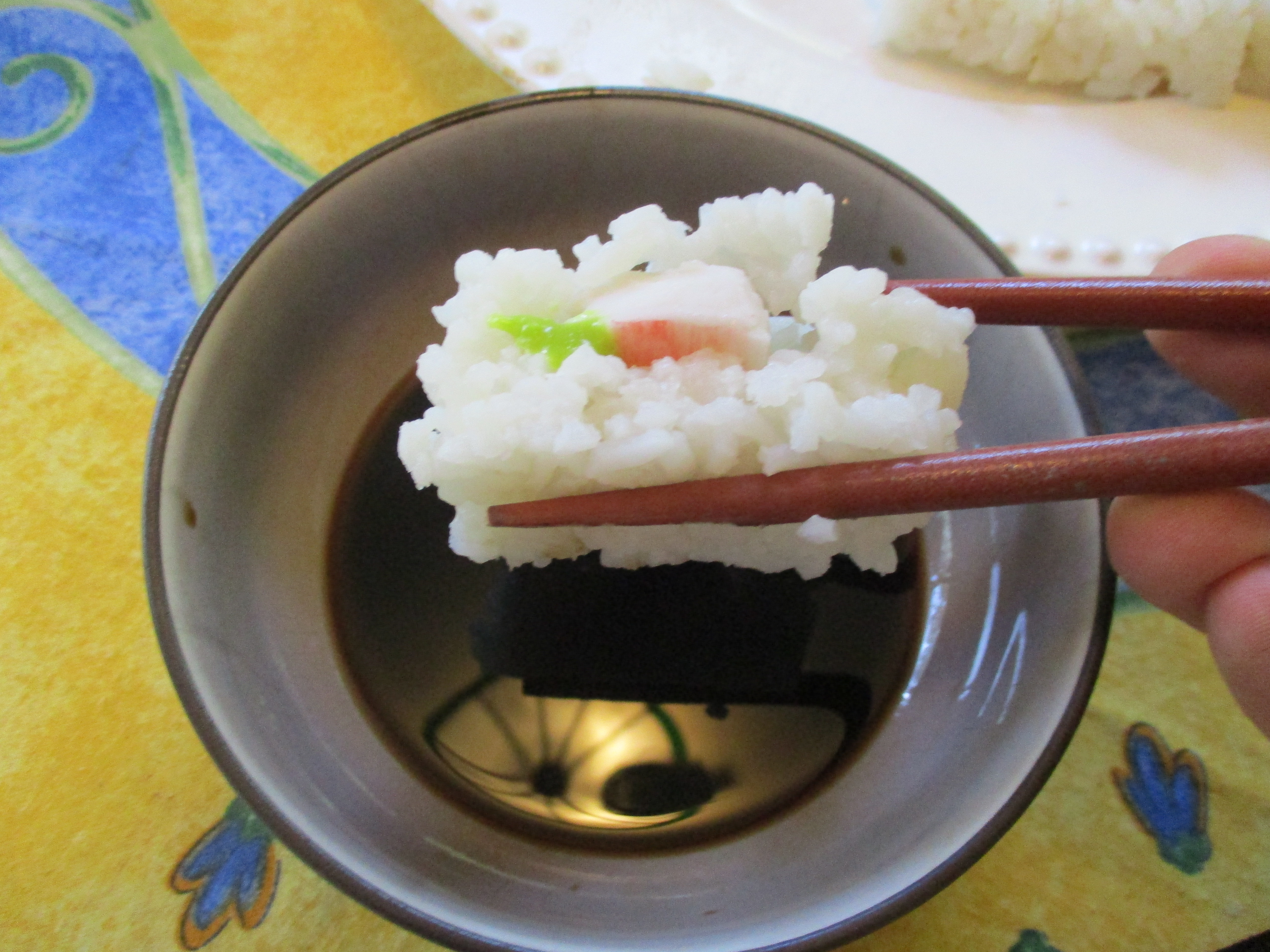 Return of the Asian-style ceramic bowl. Trilogy?